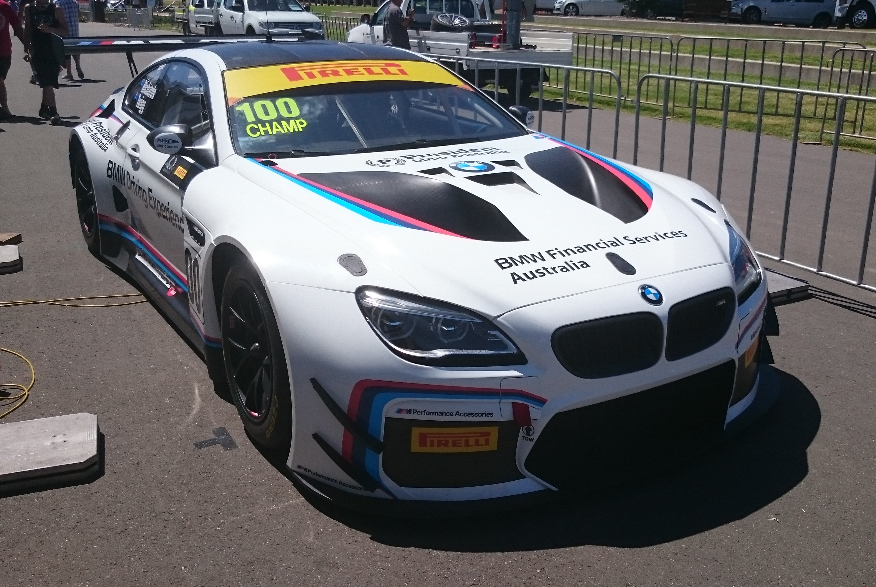 The BMW M6 GT3 of Steven Richards & Max Twigg. Adelaide Parklands Circuit, Round 1, 2016 Australian GT Championship.